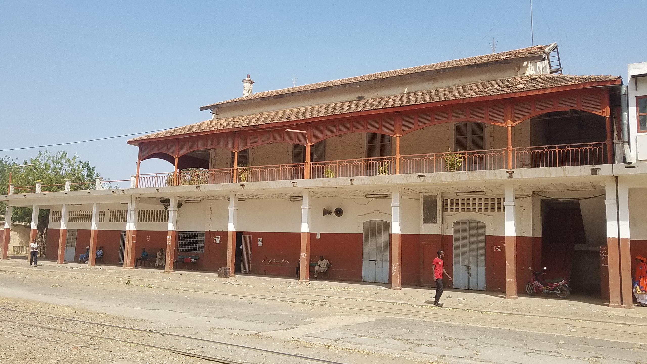 Dakar bamako railway created in 1924 the dakar bamako railway line has never been modernized the neighbors have aged and some sections are almost impractical. Only a few locomotives operate today. this situation led in 2010 and then in 2018 to the end of rotations with enormous consequences for the two countries. This is an image with the theme "Africa on the Move or Transport" from: Senegal